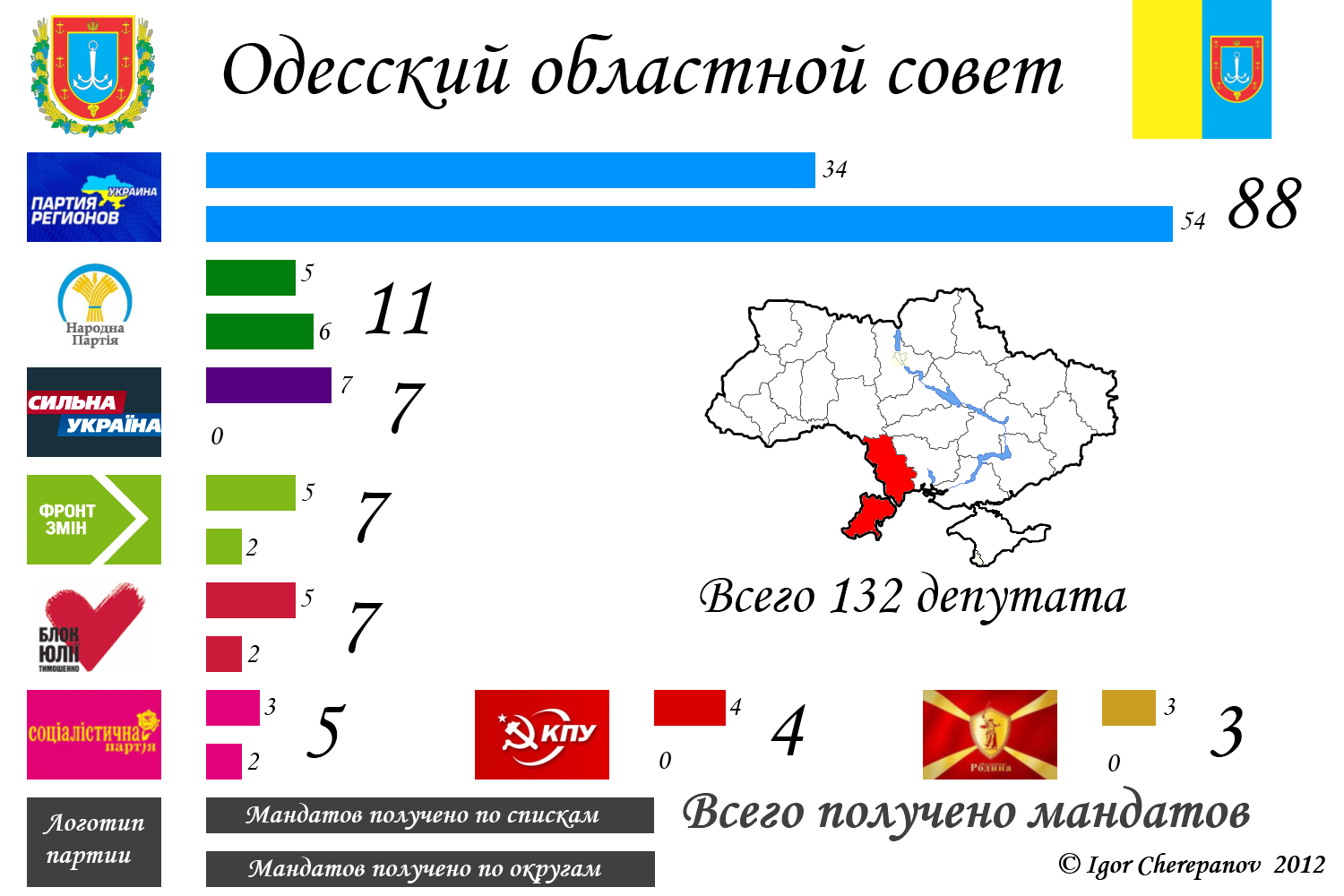 Results of Odessa Oblast local election 2010